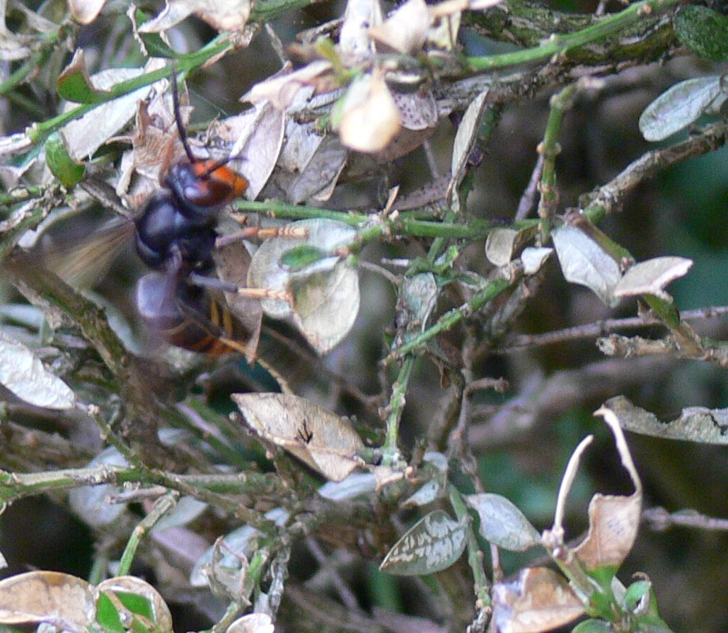 Asian hornet (Vespa velutina) hunting for box-tree moth (cydalima perspectalis) larvae on an infested box-tree bush.